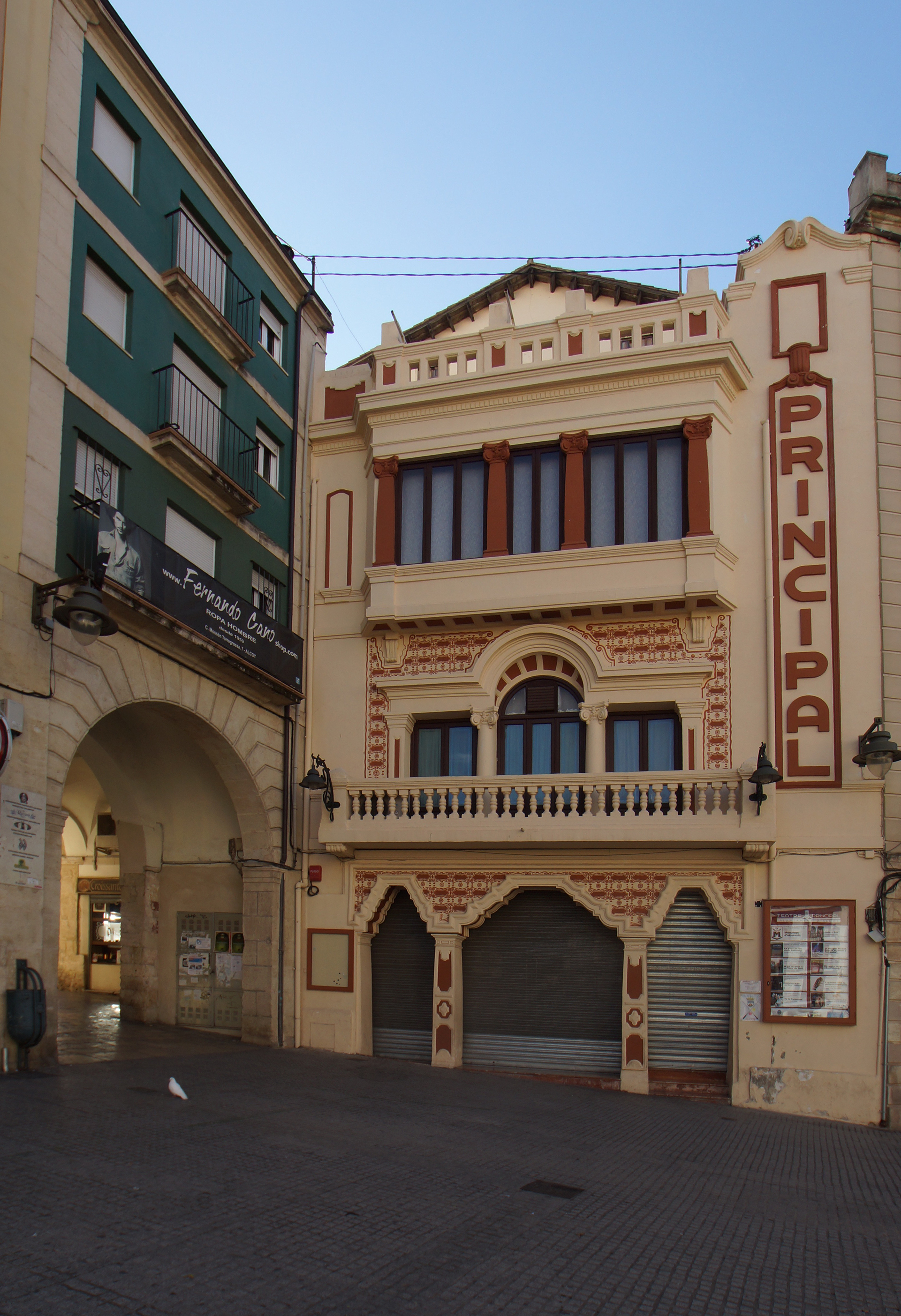 Alcoi, Valencian Country: Teatre Principal